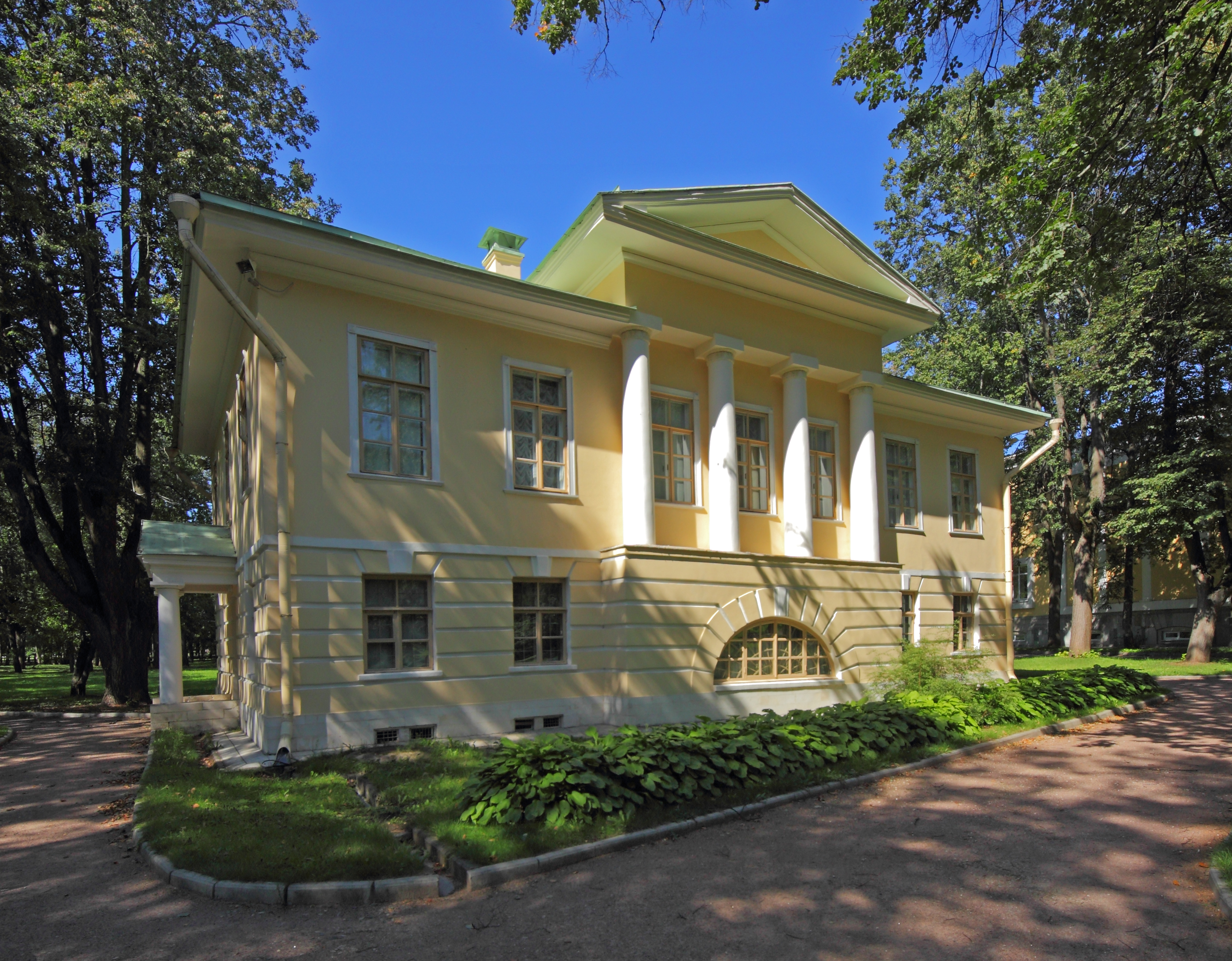 Former Arkhangelskoe Estate in Krasnogorsky District of Moscow Oblast, Russia. Service building.